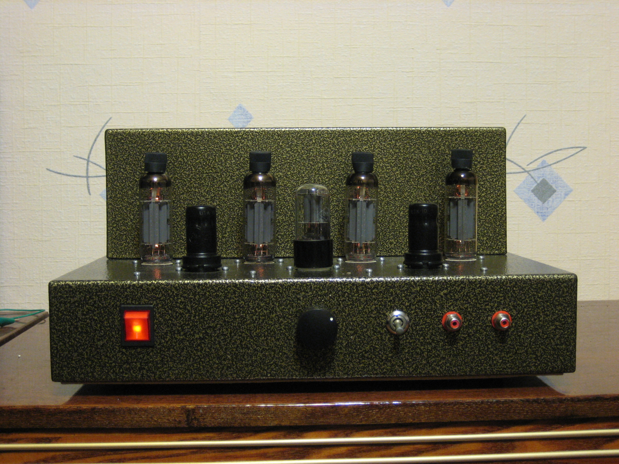 Self made tube amplifier